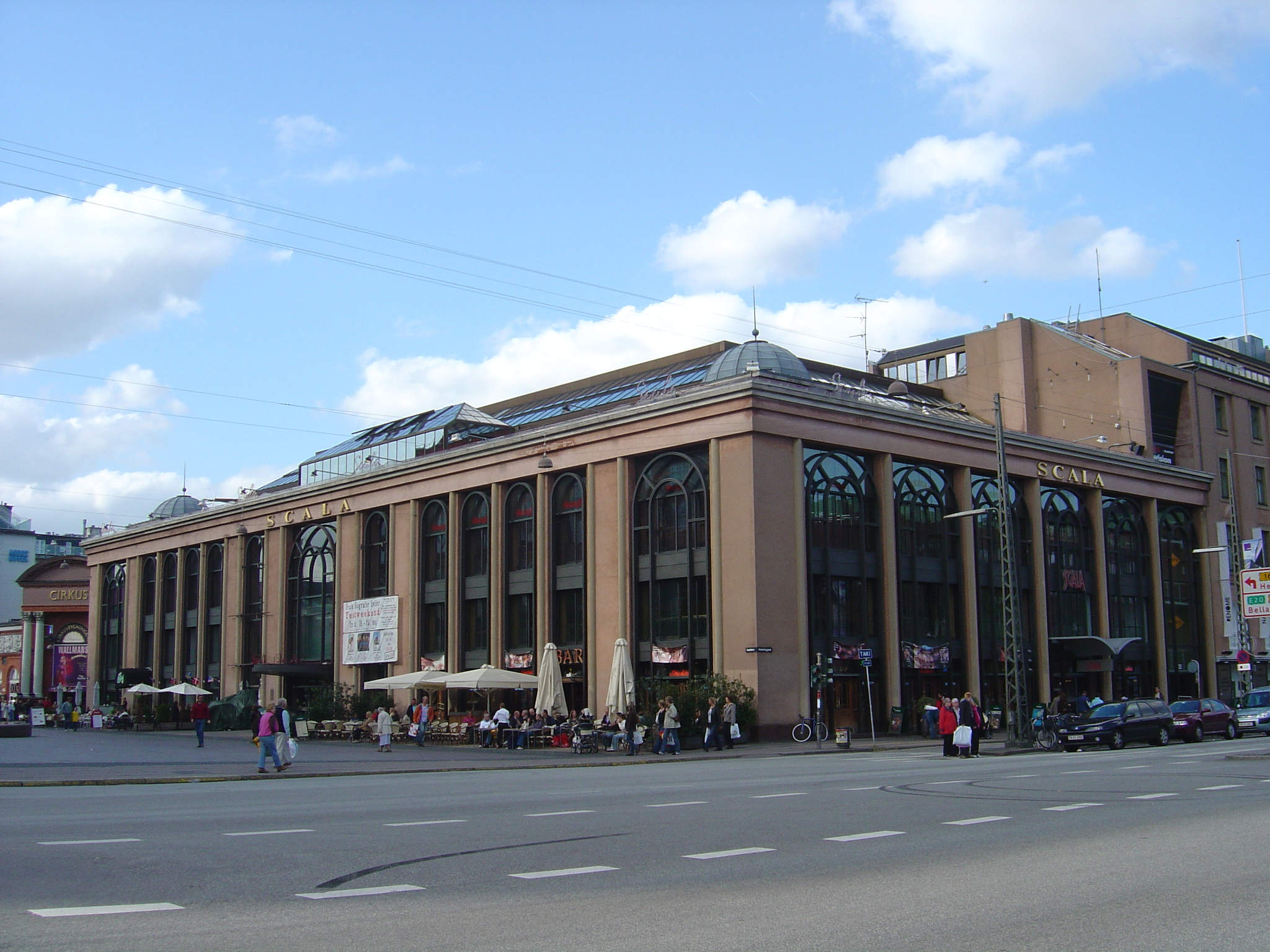 Scala at Axeltorv in Copenhagen. Seen from the southwest side, Vesterbrogade.